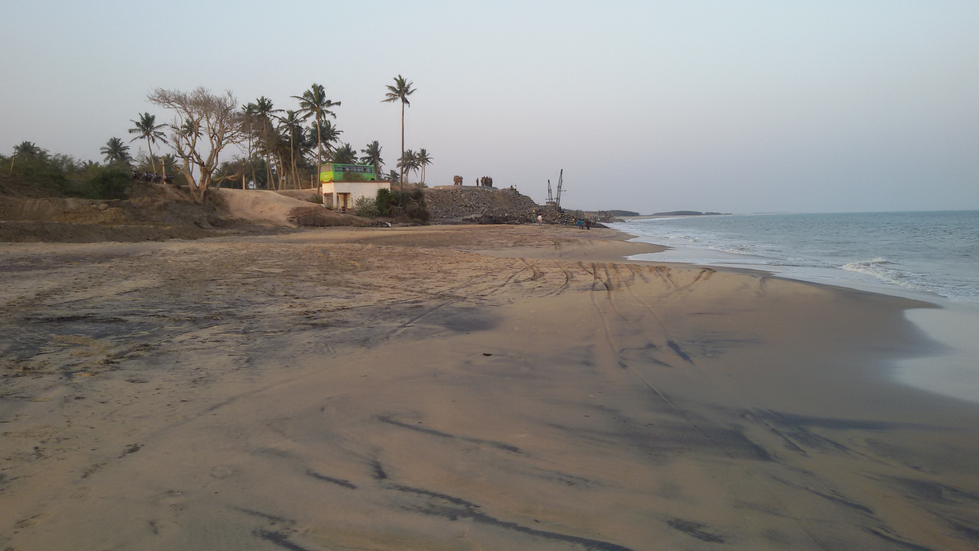 Starting Pointing of Pentha Beach Odisha 754225, India